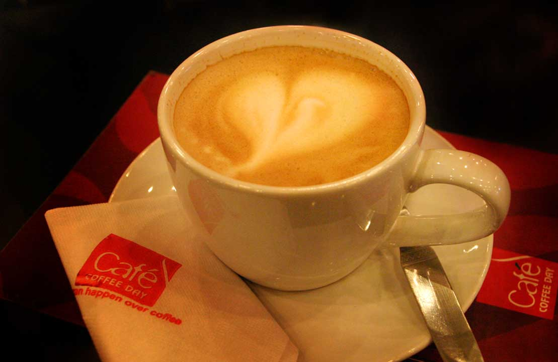 Cappuccino in India. Cafe Coffee Day in India uses the expression: "A lot can happen over a cup of coffee." I thought: "Subtle messages speak volumes". Or: "Two of my favorites things -- love and coffee!"